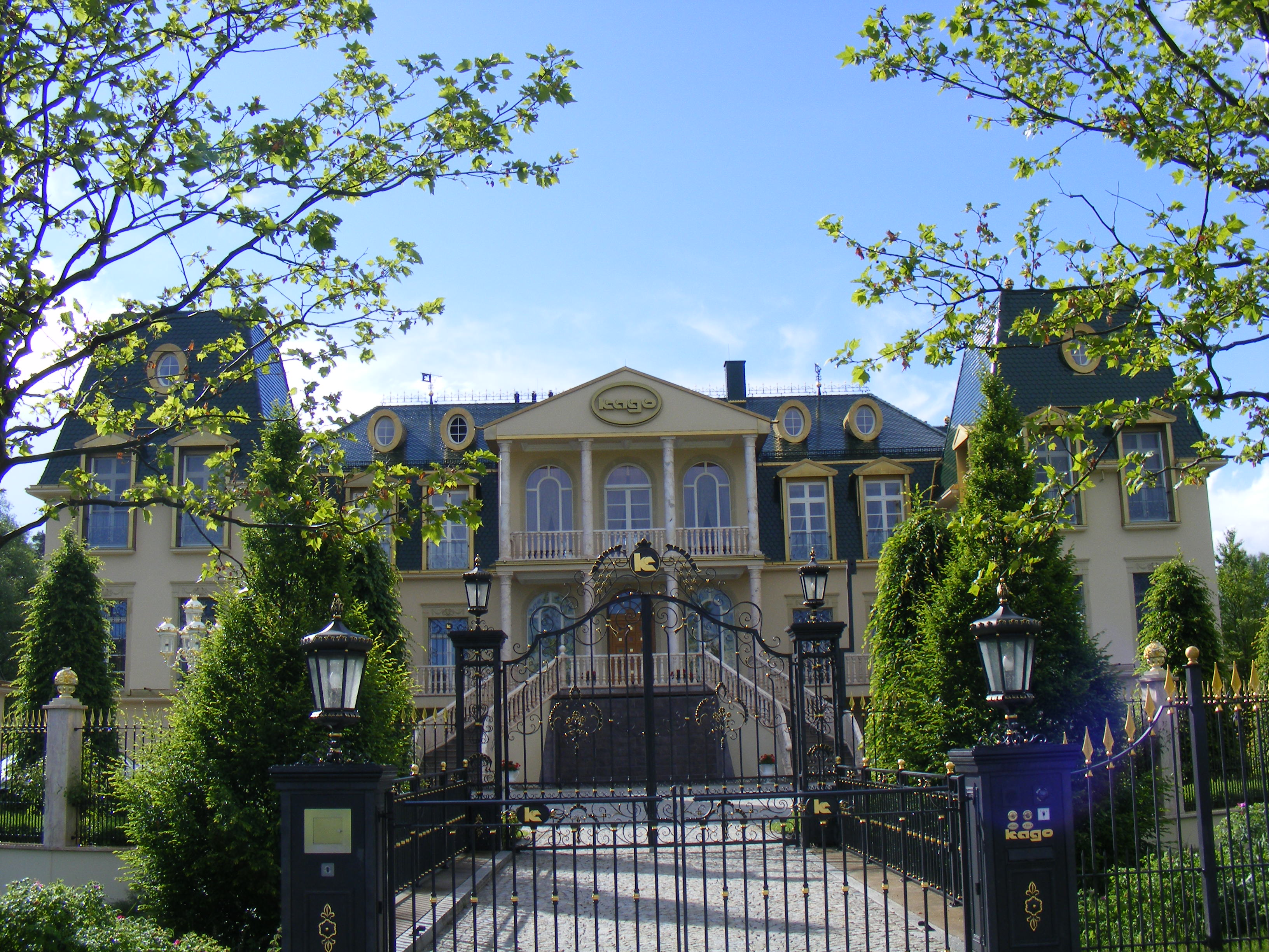 Kago Castle in Postbauer-Heng, Germany